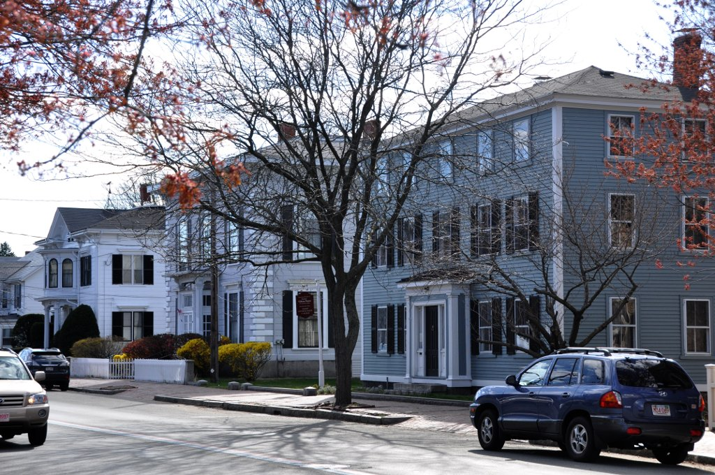 Houses along Washington Street in the Washington Street Historic District, Peabody, Massachusetts.